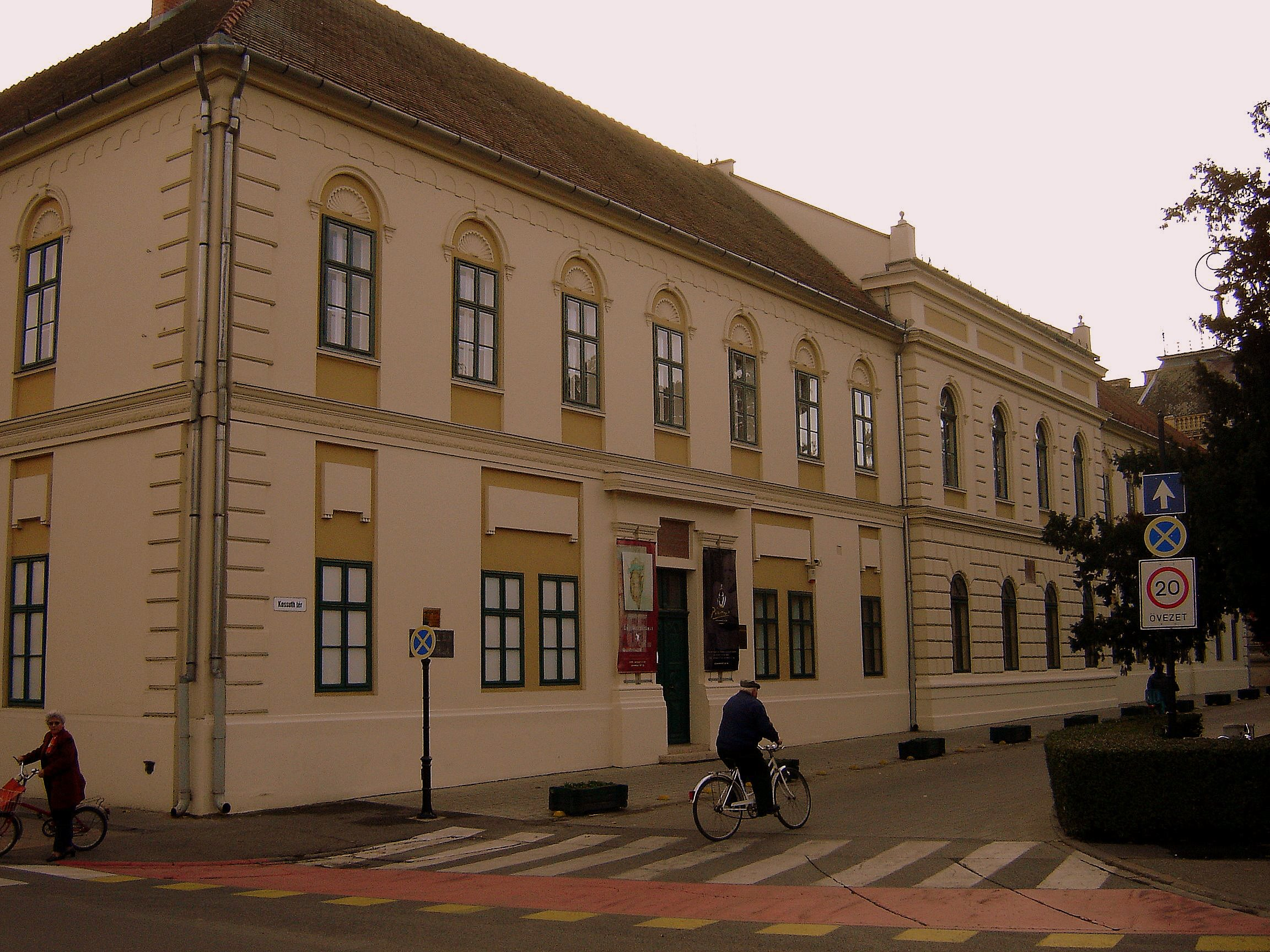 Alföldi Gallery in Hódmezővásárhely